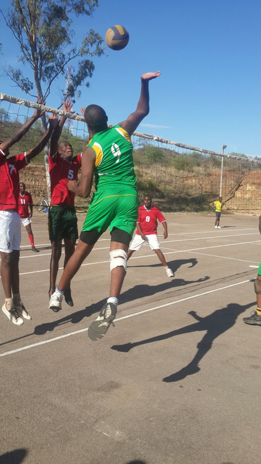 JM